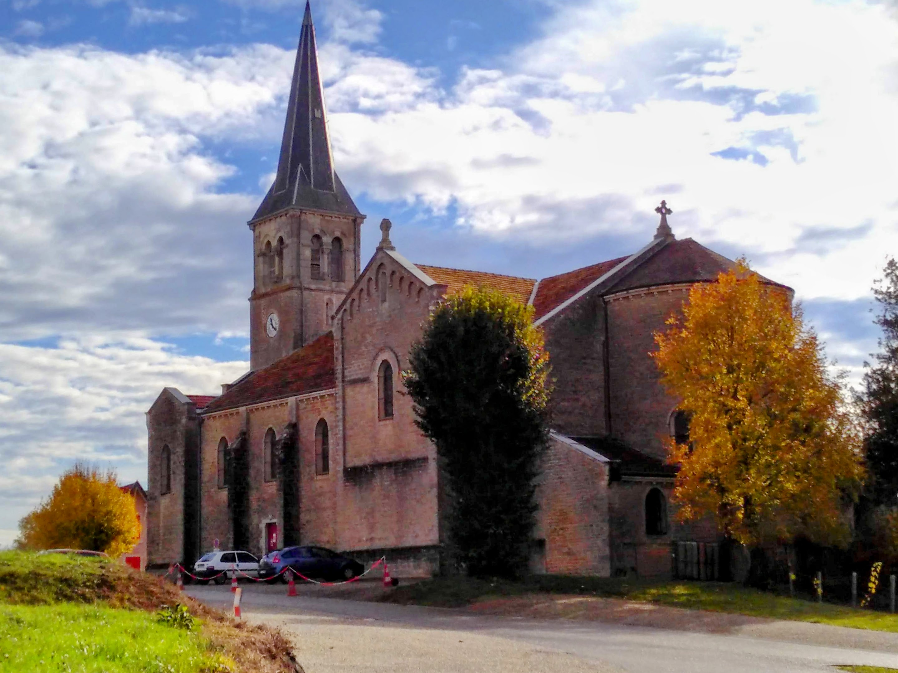 Church of Saillenard, dedicated to Saint Leonhard